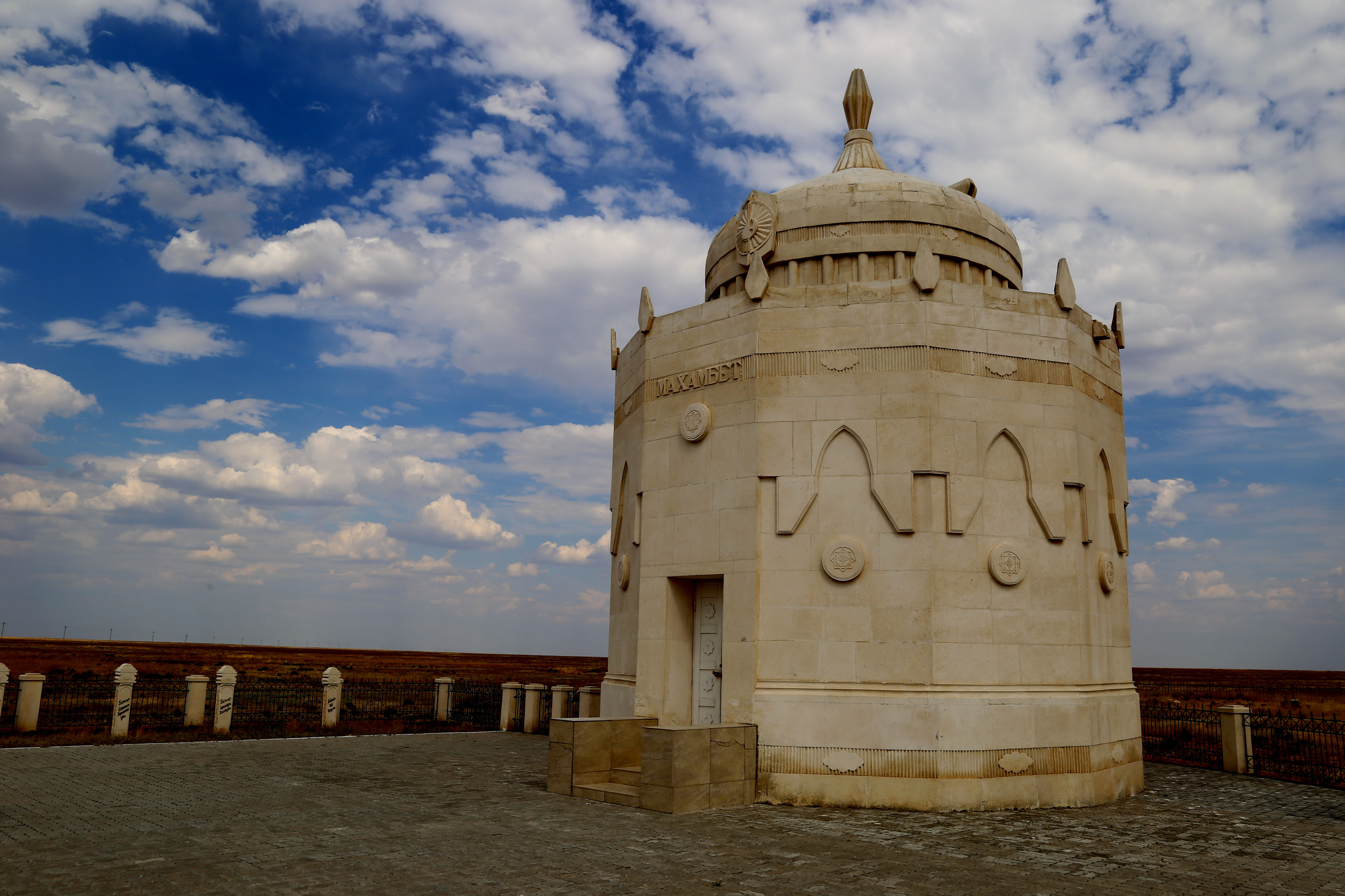 Makhambet Otemisuly Mausoleum